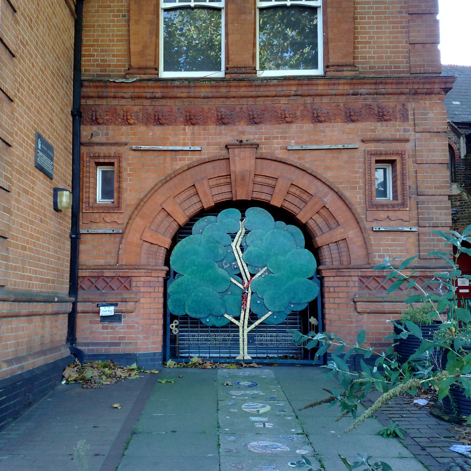 The former Livesey Museum for Children on Old Kent Road in Southwark, South London. Closed due to budget cuts in 2008.